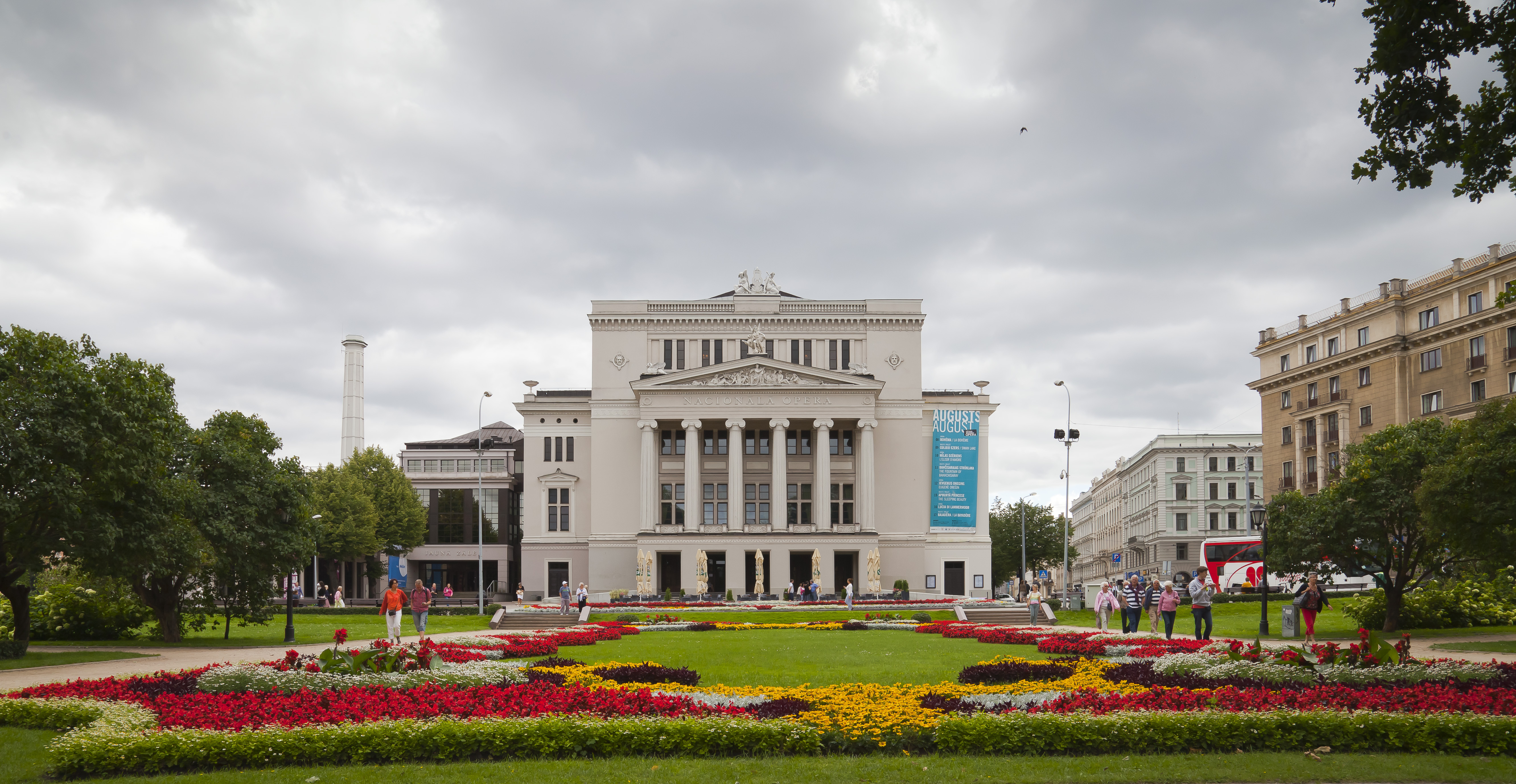 Latvian National Opera, Riga, Latvia